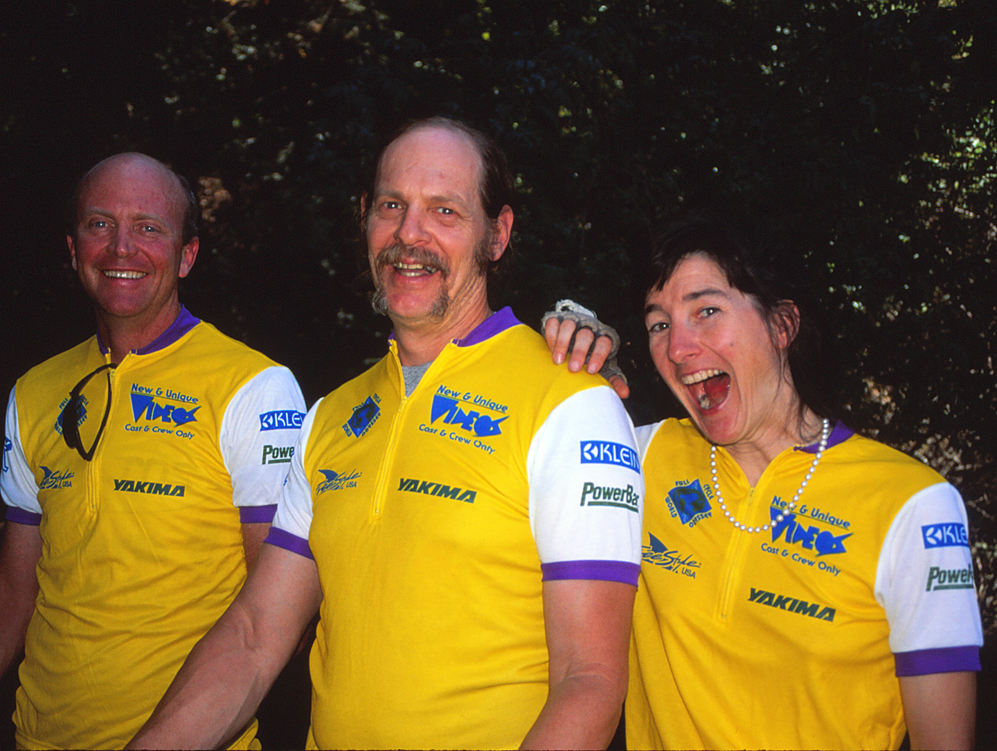 Mountain bike pioneers Gary Fisher, Charlie Kelly and Jacquie Phelan at Mount Tamalpais, California, as they appear in the around-the-world mountain-bike video documentary, Full Cycle: A World Odyssey. Photograph by Patty Mooney, Crystal Pyramid Productions, San Diego, California